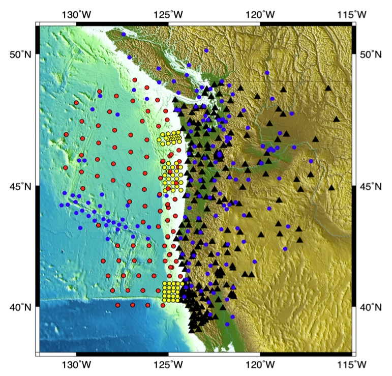 This is a map of the land and ocean-bottom stations that are being deployed in the Cascadia Initiative. (Photo from